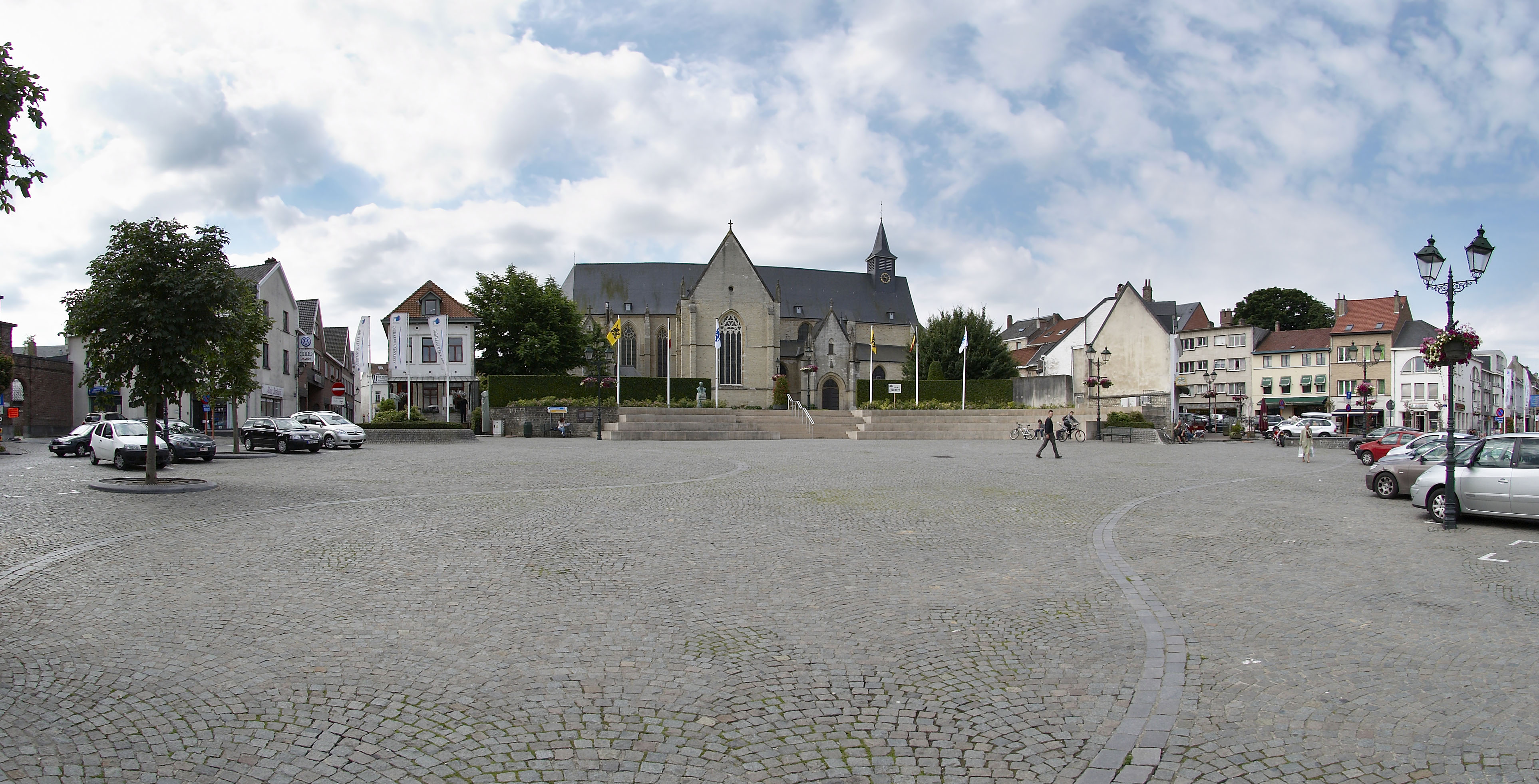 Markt in Tervuren with view on Sint-Jan Evangelist church